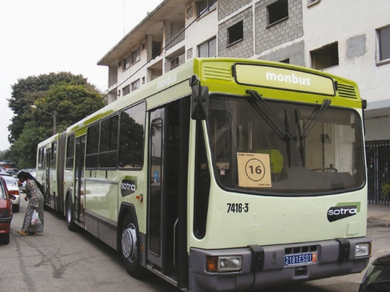 Bus built in Côte d'Ivoire by SOTRA Industries.